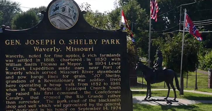 Joseph Shelby Park